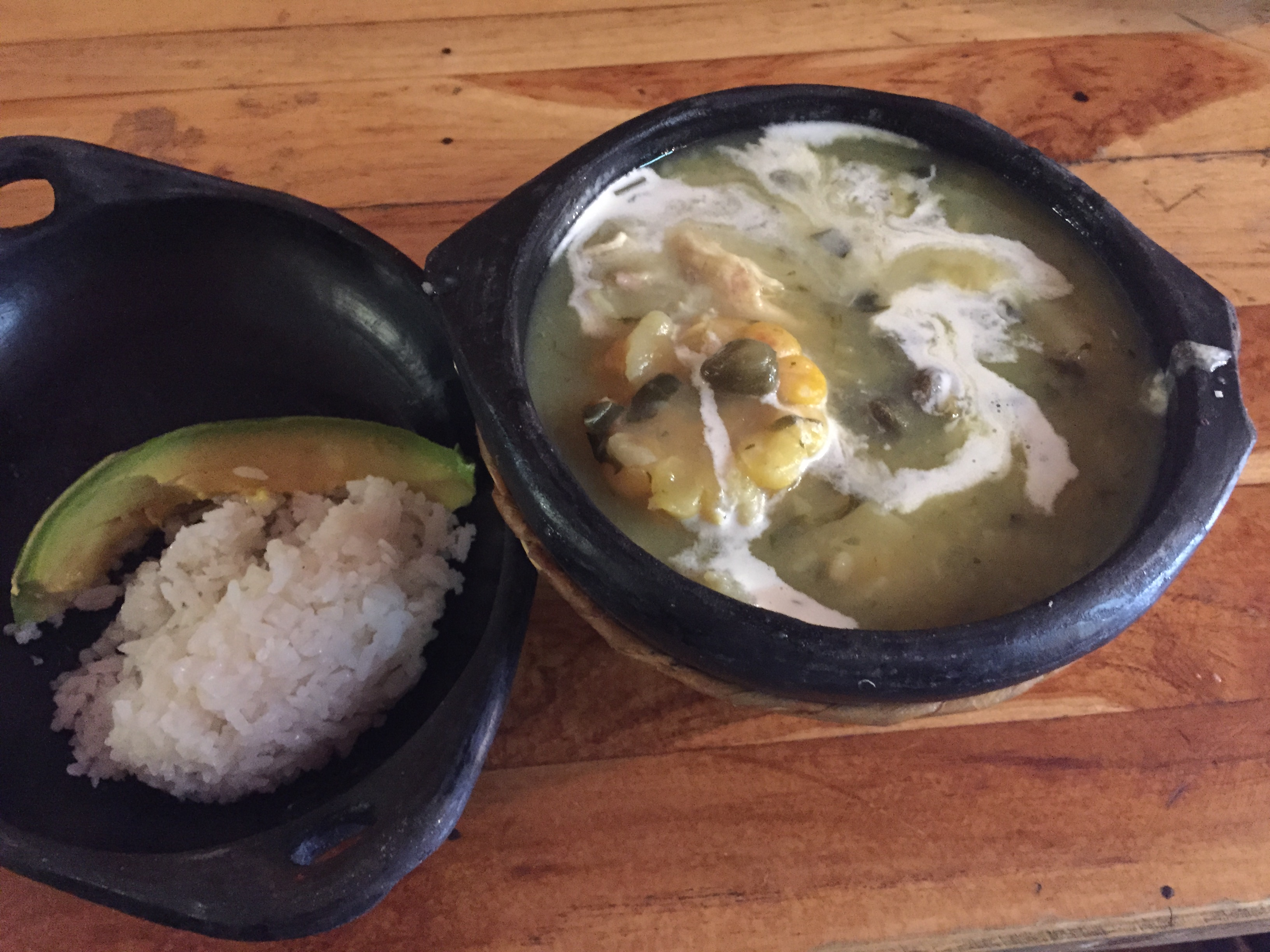 Ajiaco santafereño, Bogotá